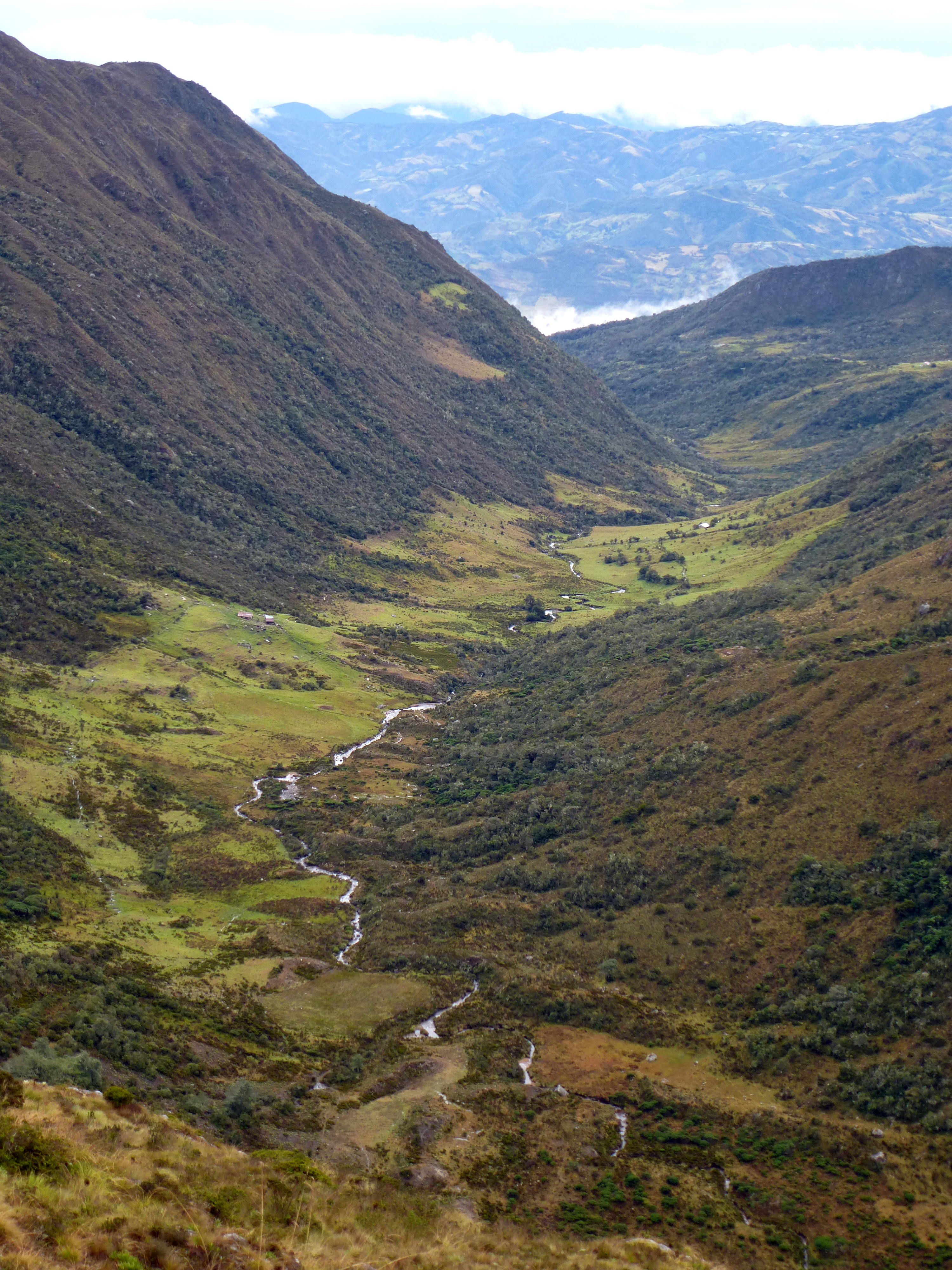 Los Salados Valley, Mutiscua, Santurbán Mutisca-Pamplona Regional Park